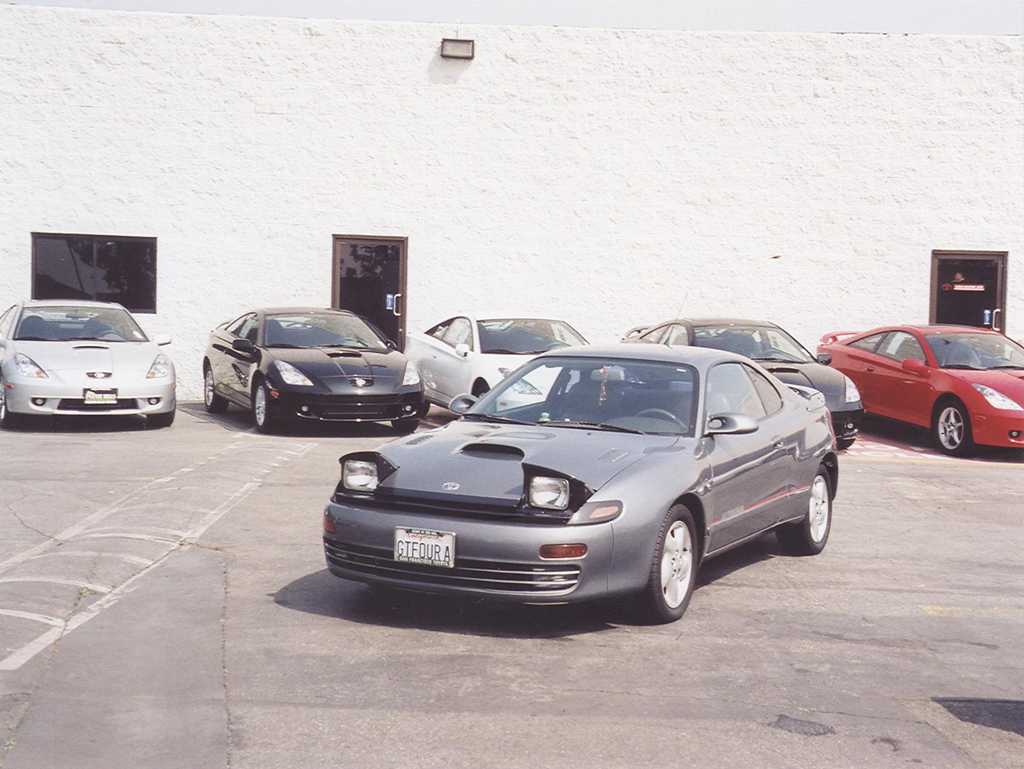 My 1993 Toyota Celica GT-Four All-Trac Turbo (ST185L-BLMVZA) shown in Gray Metallic (colour code 182). I took this photo at Puente Hills Toyota Dealer in City of Industry, California.